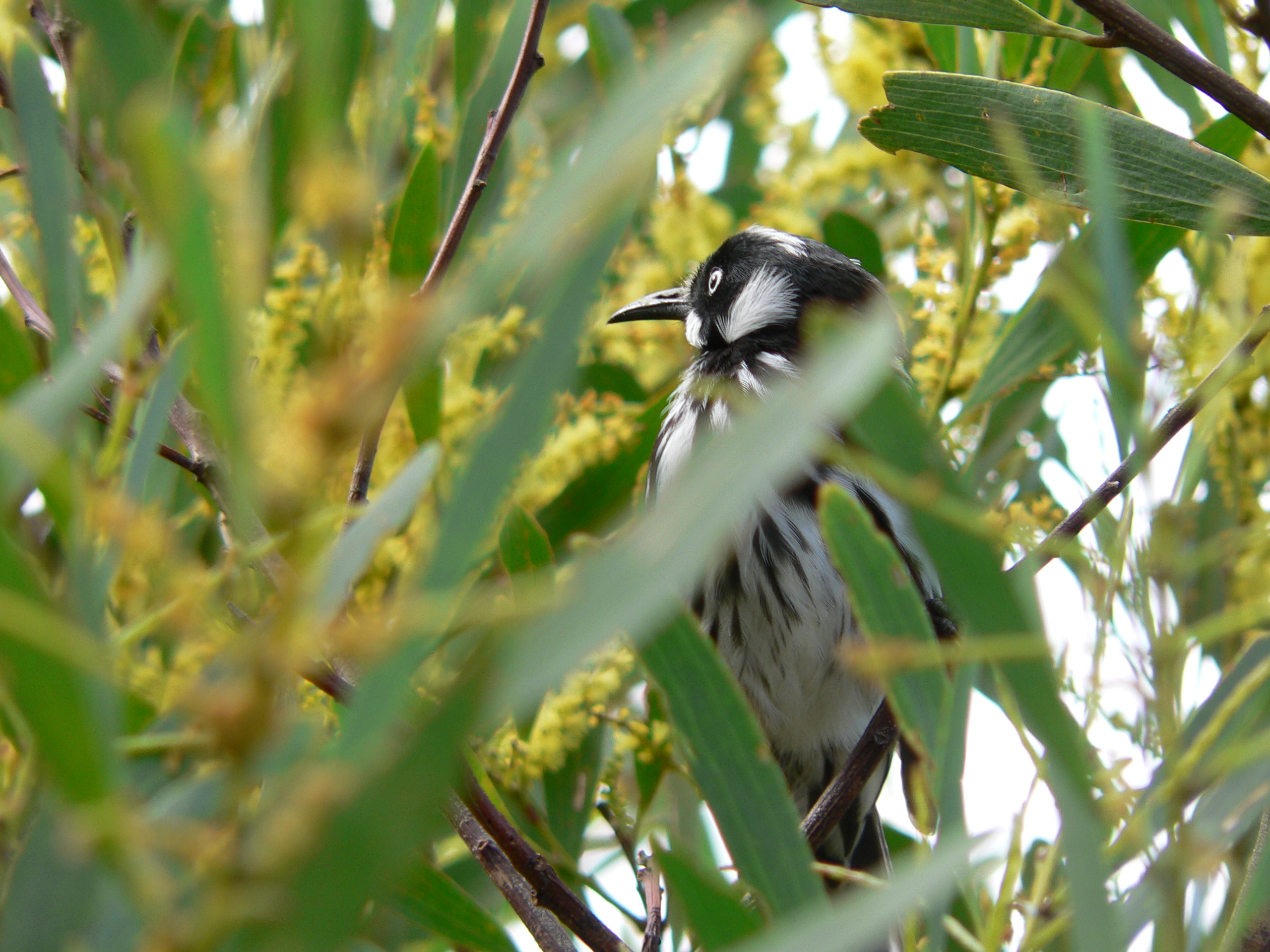 New Holland Honeyeater